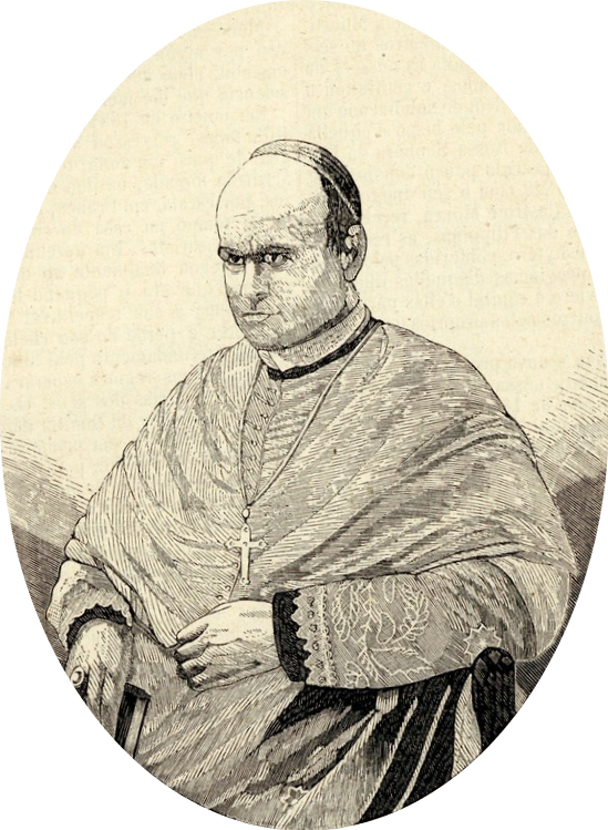 Jerónimo José da Mata (1804-1865), bishop of Macau, drawn by Nogueira da Silva and engraved by Coelho; published in 1858